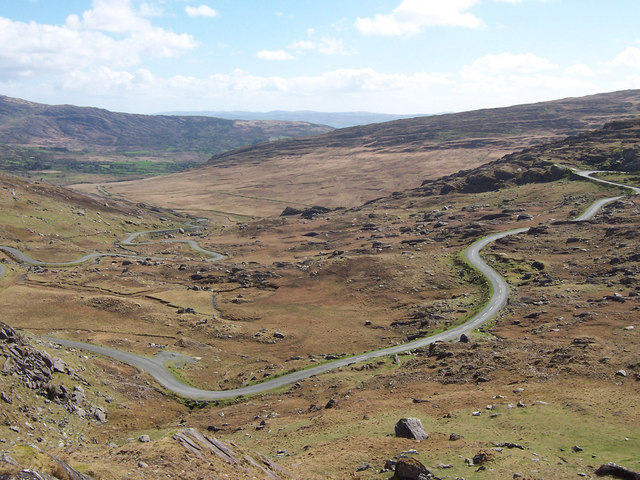 Healy Pass on Bere Peninsula At the top of the Healy pass, looking back along the twisting road to Adrigole.